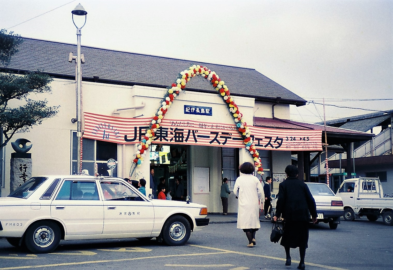 Kii-Nagashima Station